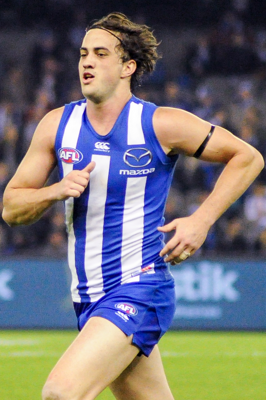 Taylor Garner during the AFL round thirteen match between North Melbourne and St Kilda on 16 June 2017 at Etihad Stadium in Melbourne, Victoria.